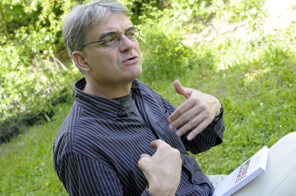 Ulrich Brand. copyright: Lisa Bolyos